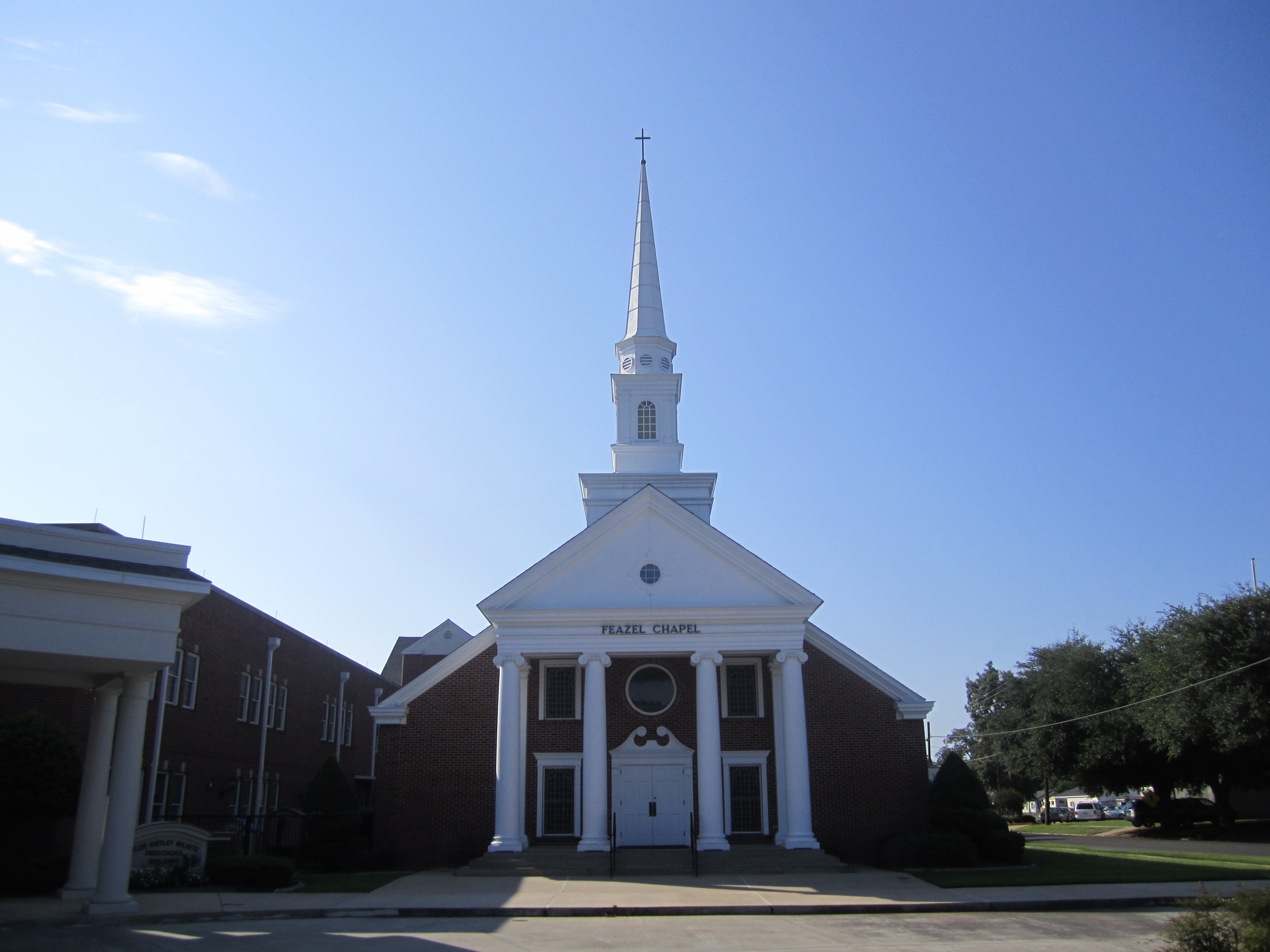 I took photo with Canon camera in West Monroe, LA.